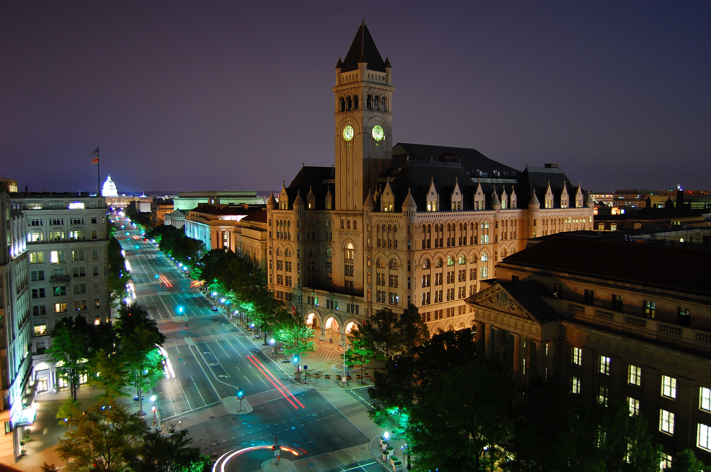 Looking southeast down Pennsylvania Avenue in Washington, D.C. Visible landmarks include the Old Post Office Pavilion (center) and United States Capitol.